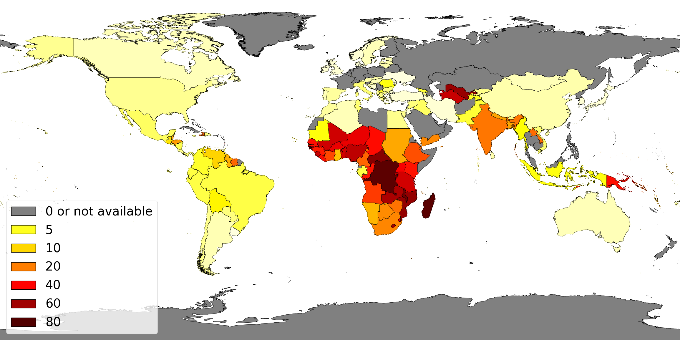 Countries by percent of population living below 1.90 in 2011 dollars pulled from World Bank API and generated using Note even though the data is the most recent World Bank data from 2018 much of it is quite old. It is used for